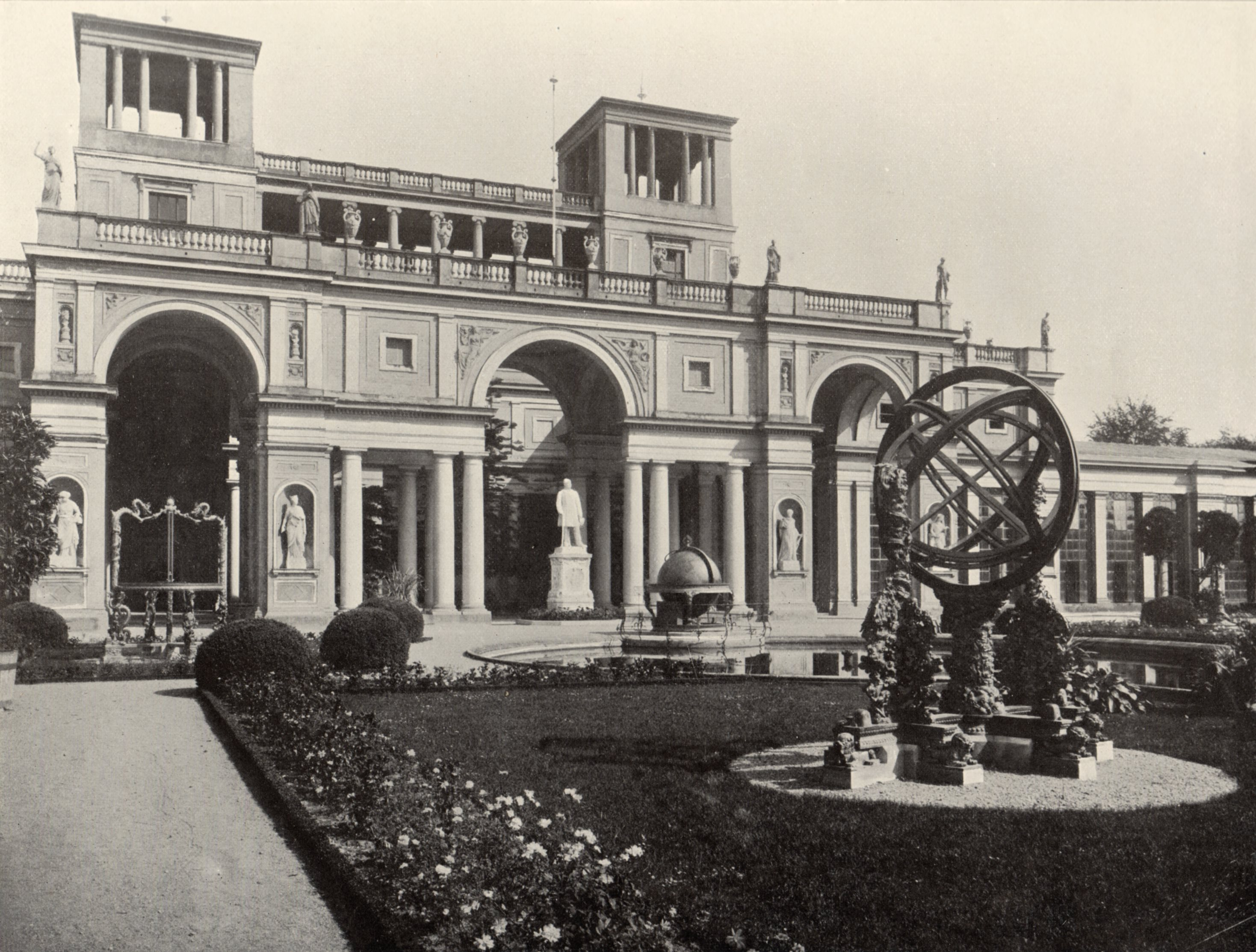 orangery in Sanssouci (Potsdam, Germany around 1900)